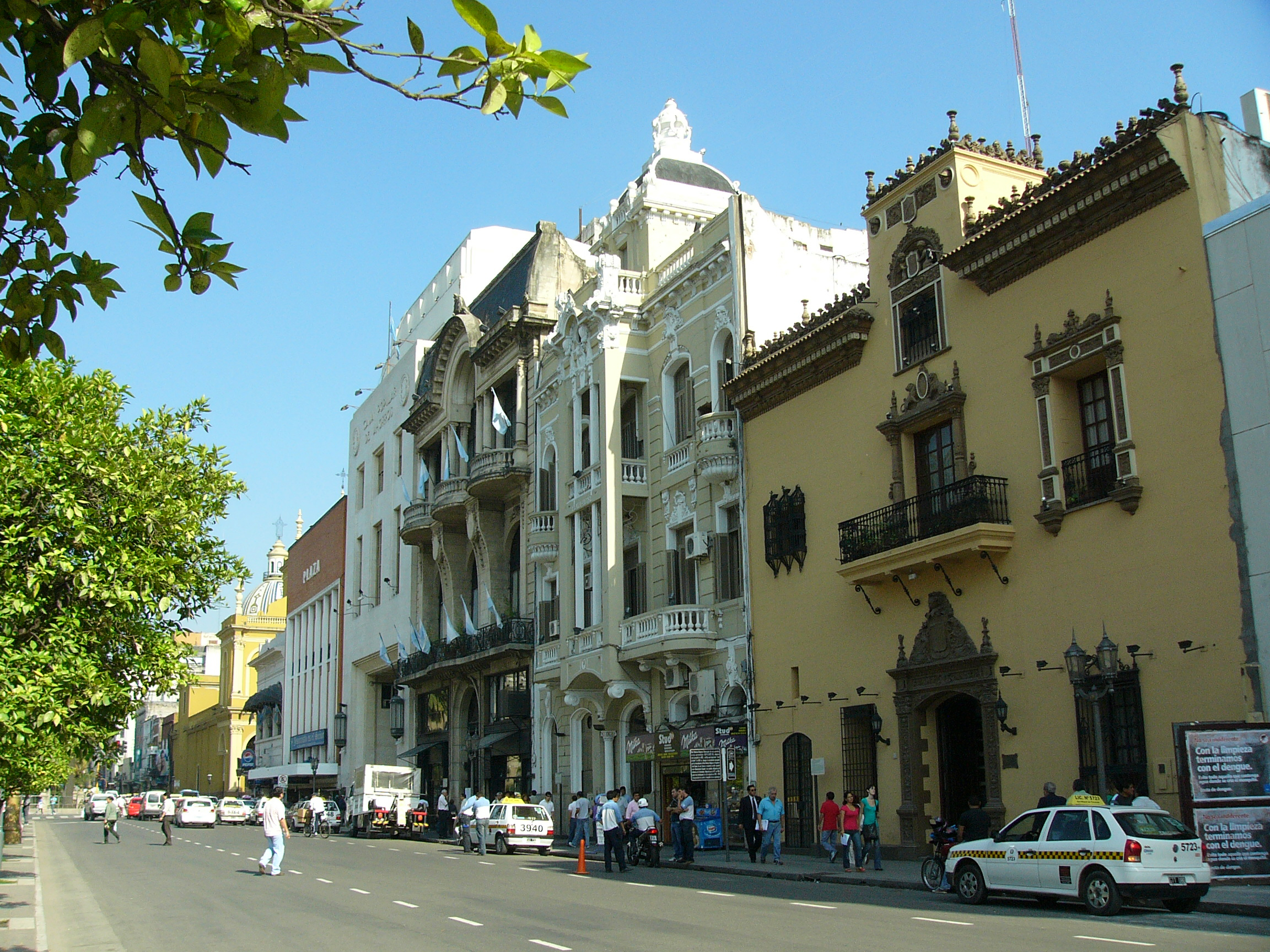 Street in Tucumán, Argentina